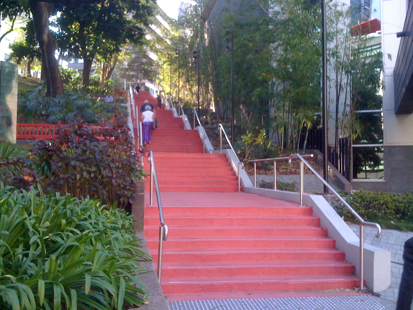 Jacob's Ladder, Brisbane, October 2012